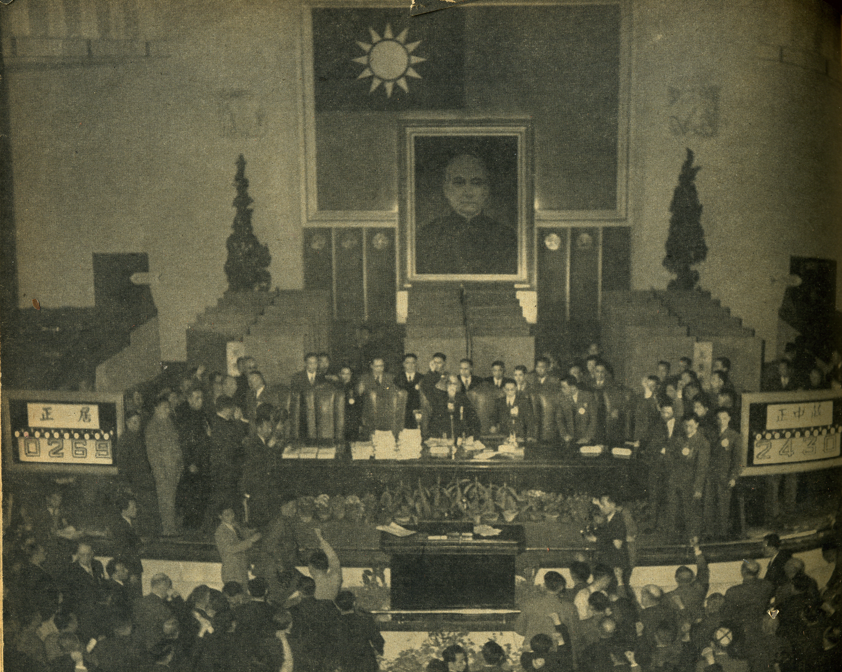 This picture was taken in 1946. The copyright has expired!